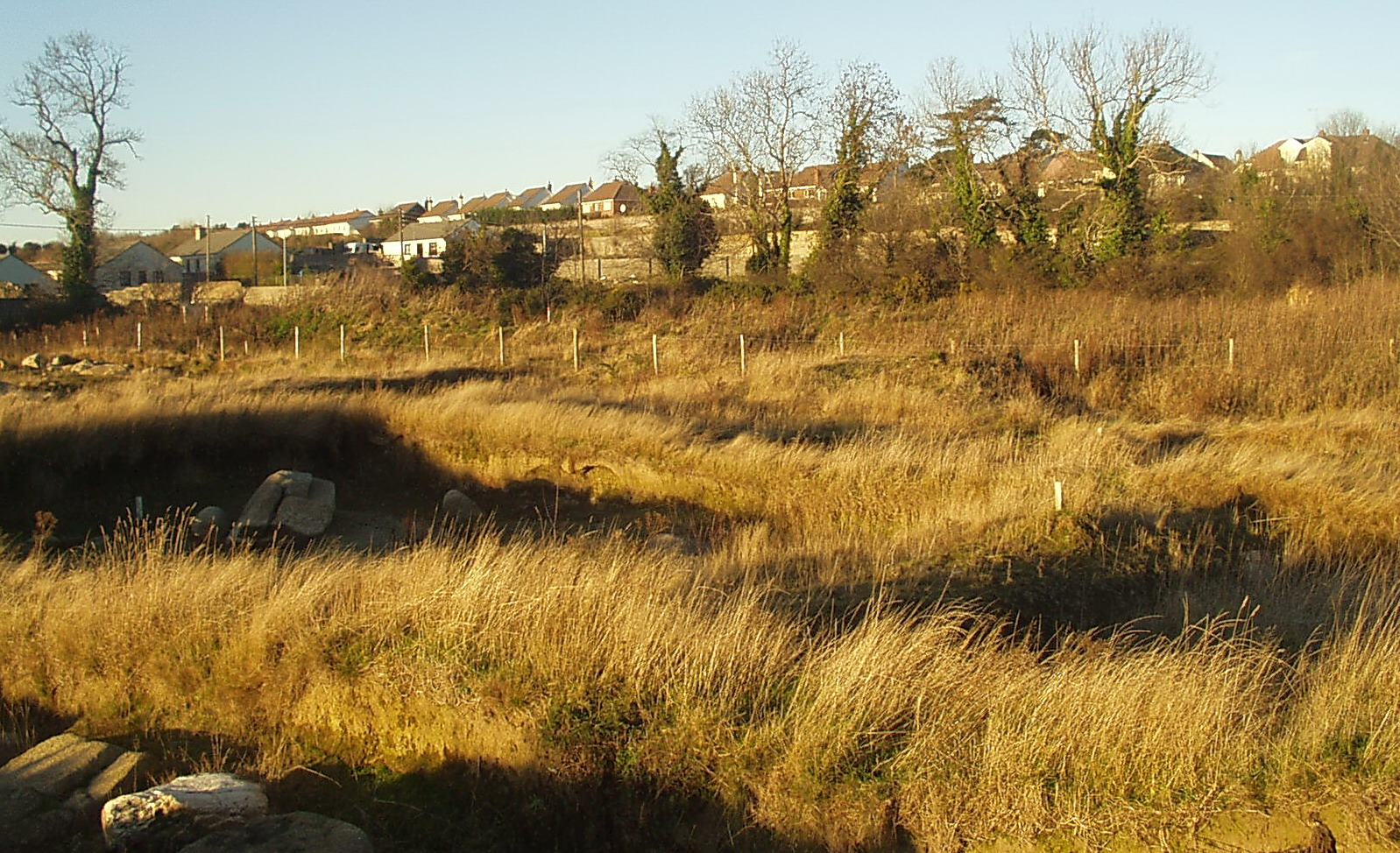 Water feature uncovered by the archaeological dig at Carrickmines